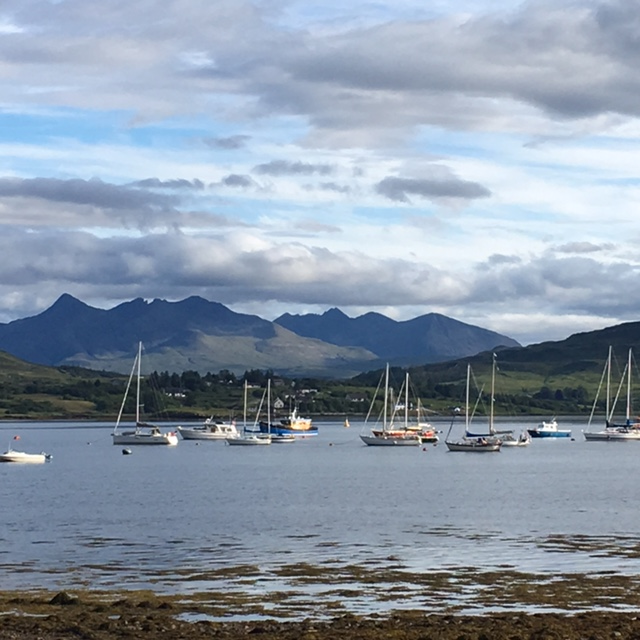 Boats in the harbour at Portree, Isle of Skye